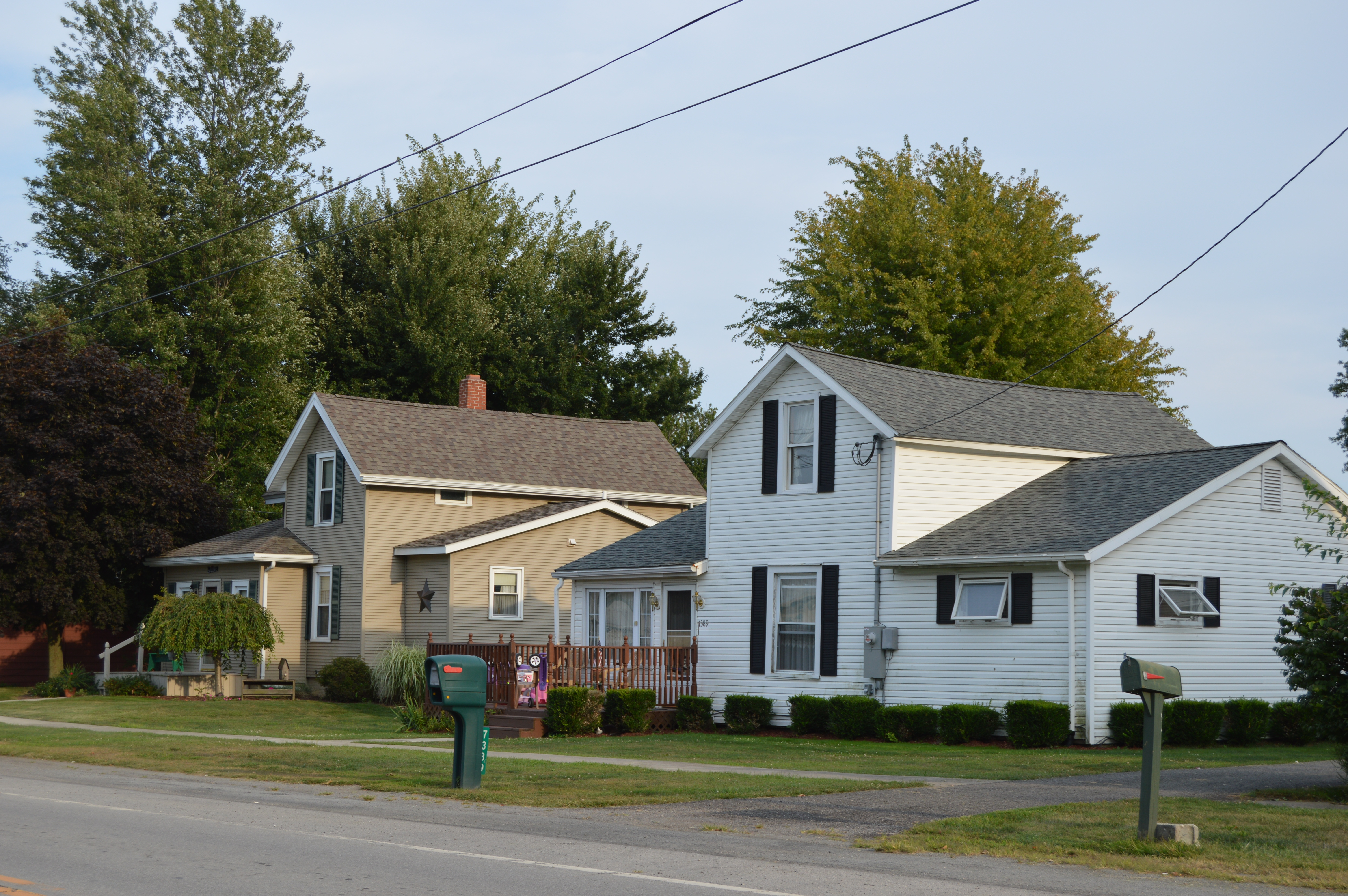 Houses on the southern side of Main Street (State Route 294) just west of the Oneida Street intersection in Harpster, Ohio, United States.